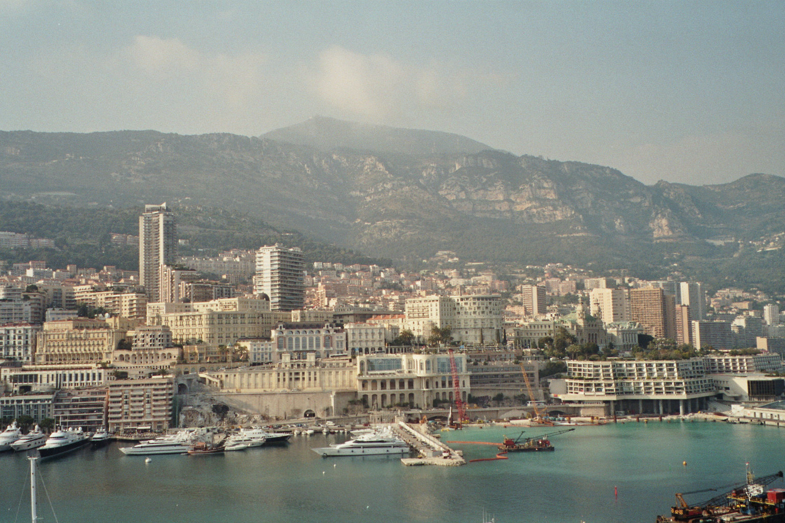 Monaco seen from the park in front of the sea-museum